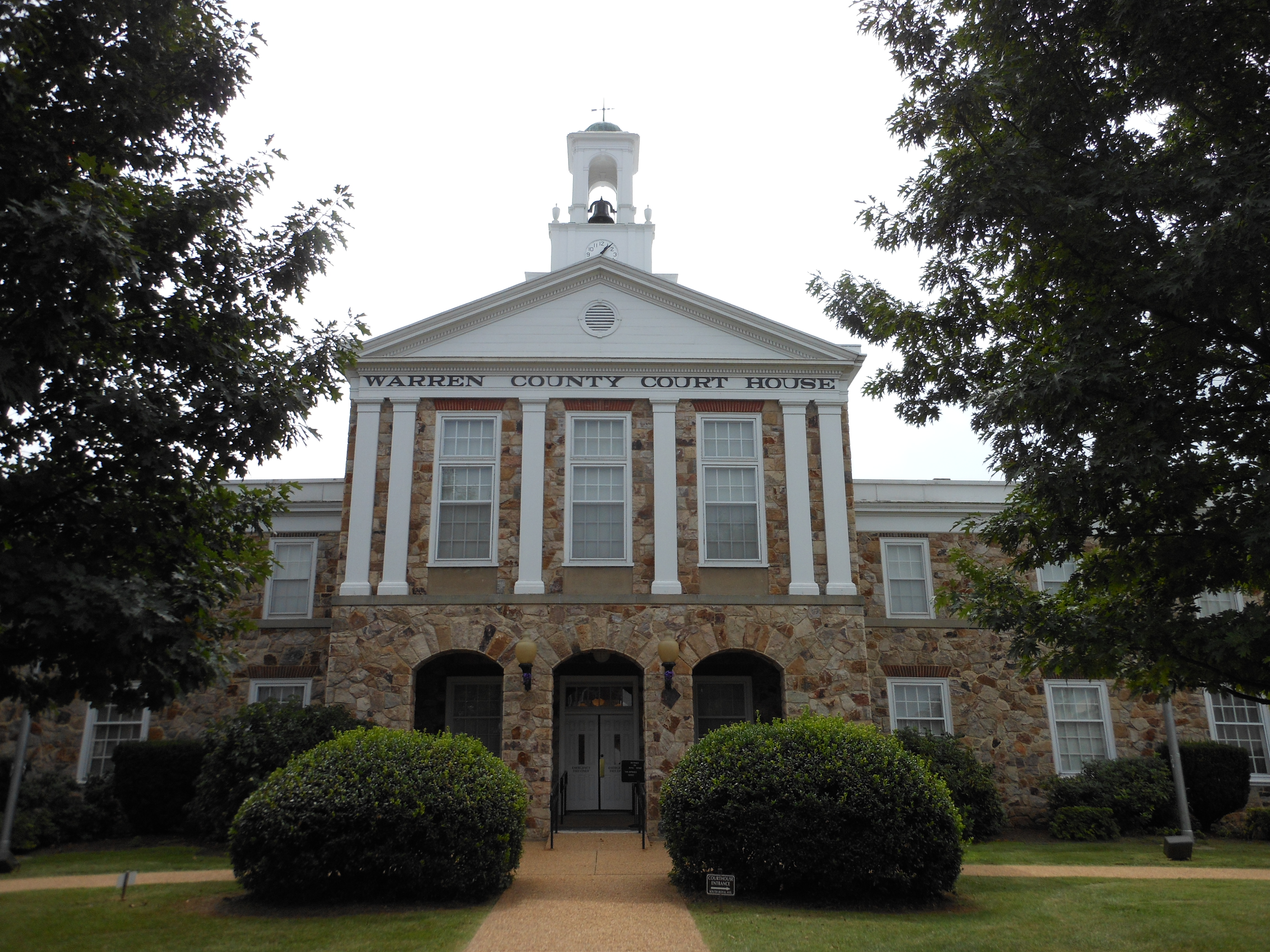 Warren County Courthouse